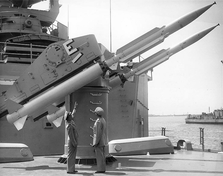 The Commanding Officer of the U.S. Navy guided missile cruiser USS Providence (CLG-6), Captain B.D. Voegelin, points out the "E" award, with one hashmark, on her Mark 9 RIM-2 Terrier guided missile launcher, 2 May 1962. Looking on is Rear Admiral K.L. Veth, Commander Mine Force, U.S. Pacific Fleet and Commander Naval Base Los Angeles. As a Captain, Veth was Providence´s first Commanding Officer when she was commissioned in 1959. The hashmark represents the second missile "E" won by Providence in two years of fleet competition. In her first year she won the Cruiser Battle Efficiency "E" and the Margorie Sterret Battleship Award for the most outstanding cruiser in the Pacific Fleet. Photographed at Long Beach, California (USA).